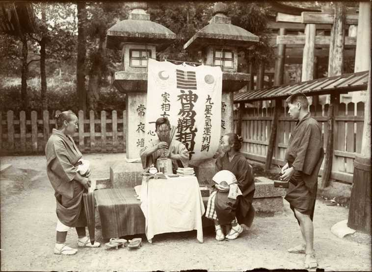 Description: "Photograph of Fortune Teller, Japan". Photograph taken by Herbert Ponting (1870-1935). Date: c.1907 Our Catalogue Reference: COPY 1/507/159 This image is from the collections of The National Archives. Feel free to share it within the spirit of the Commons. For high quality reproductions of any item from our collection please contact our image library.